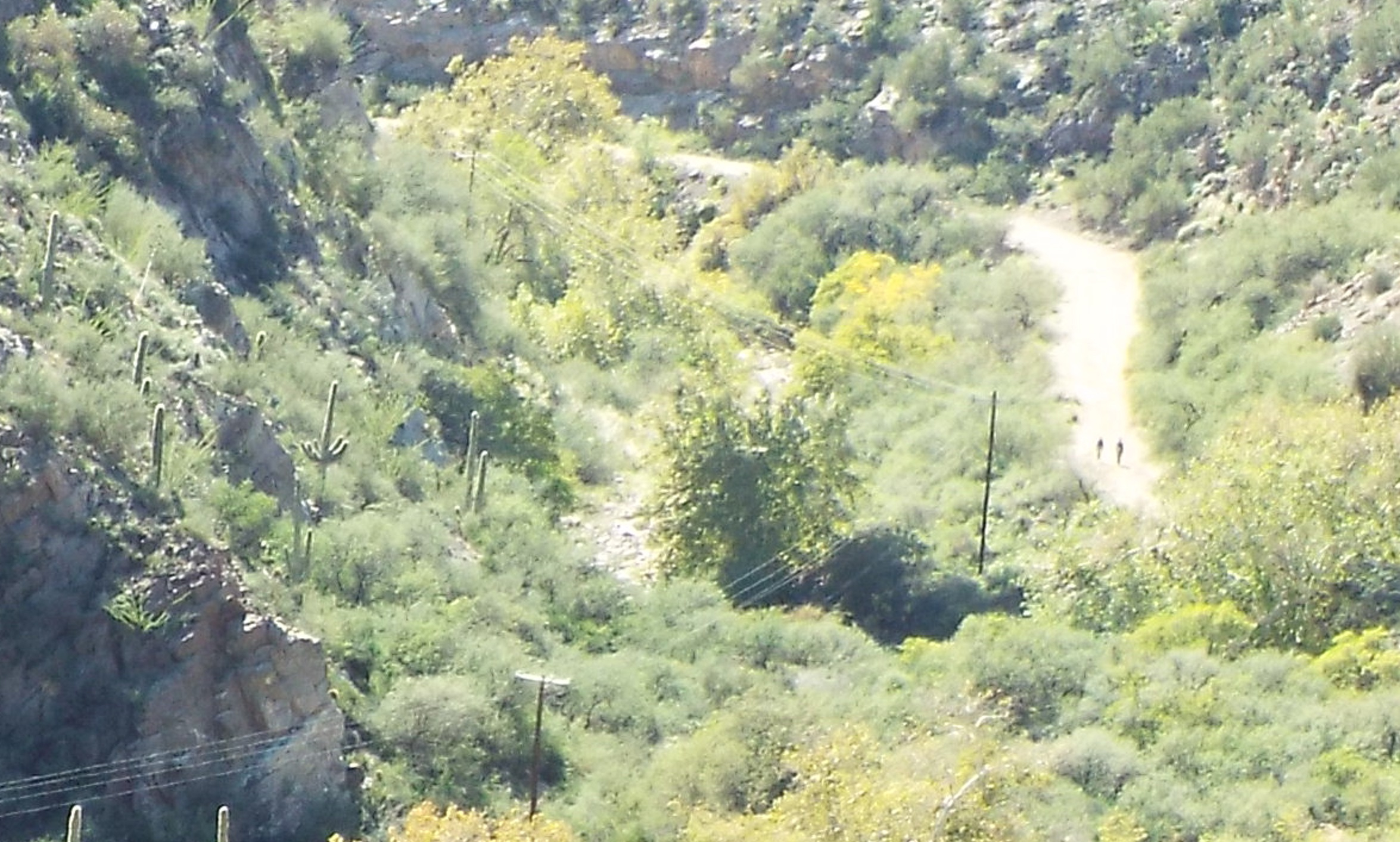 Superior, Arizona-Old Highway 60-1921